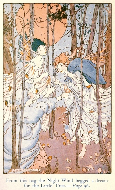 Illustration for "The Green Forest Fairy Book" by Loretta Ellen Brady, illustrated by Alice B. Preston, 1920.